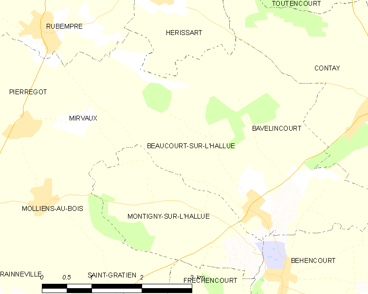 Map of French municipality Beaucourt-sur-l'Hallue